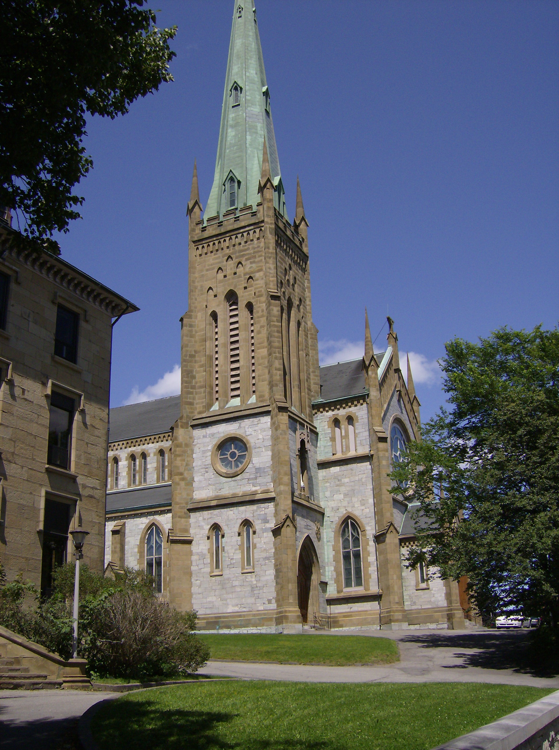 Historic Saint John, photo by Paul T. E Cusack